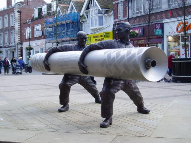 Staines High Street. Sculpture of two men carrying a roll of lino. The Staines Lino Factory was the first factory in the world to manufacture linoleum, a type of floor covering, which was available to everyone. The factory was set up in 1864 and continued to make linoleum for over 100 years and made 'Staines Lino' a world-wide name. There is no trace of the factory now.